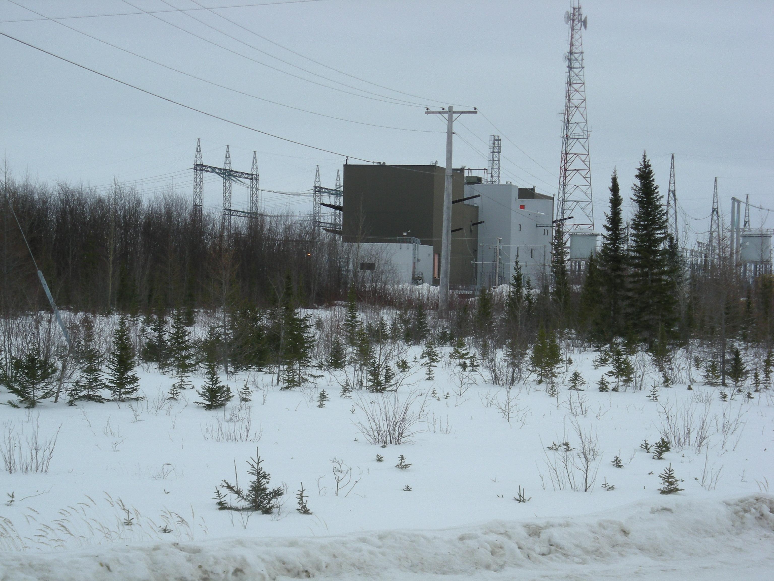 The Henday Converter Station near Sundance, Manitoba. The station is the northern terminal for Manitoba Hydro's Bipole II high voltage direct current (HVDC) transmission system.